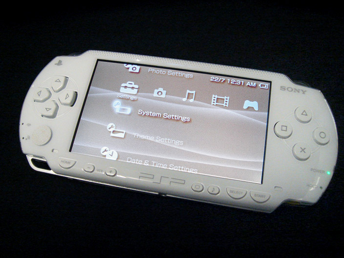 Image of a PSP console